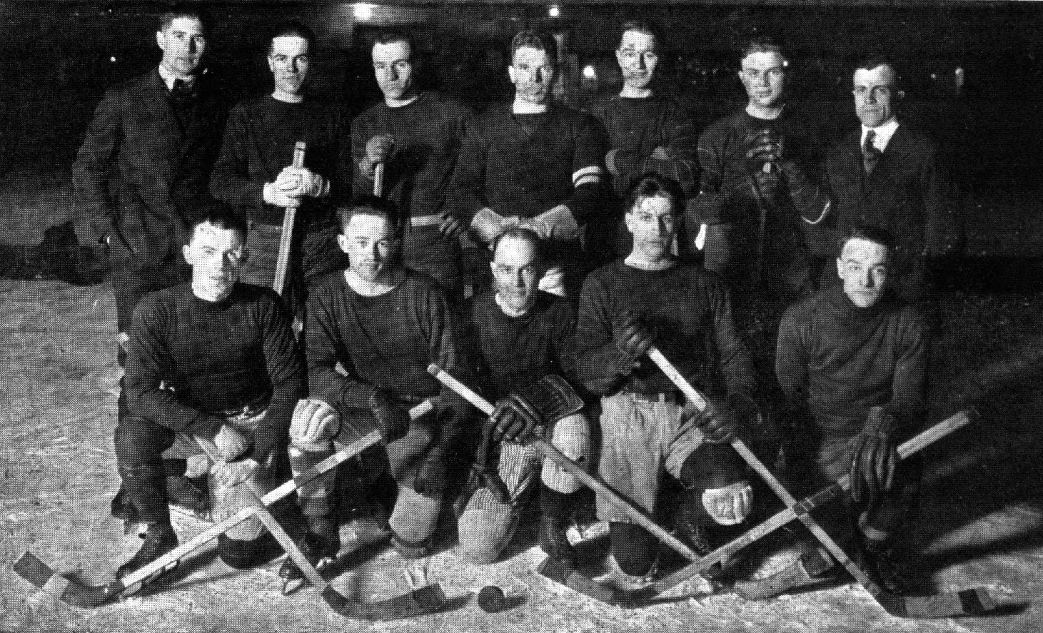 Photograph of the first University of Michigan ice hockey team ("Informal Varsity Hockey Team"), 1919-1920, formed by Coach Drullard